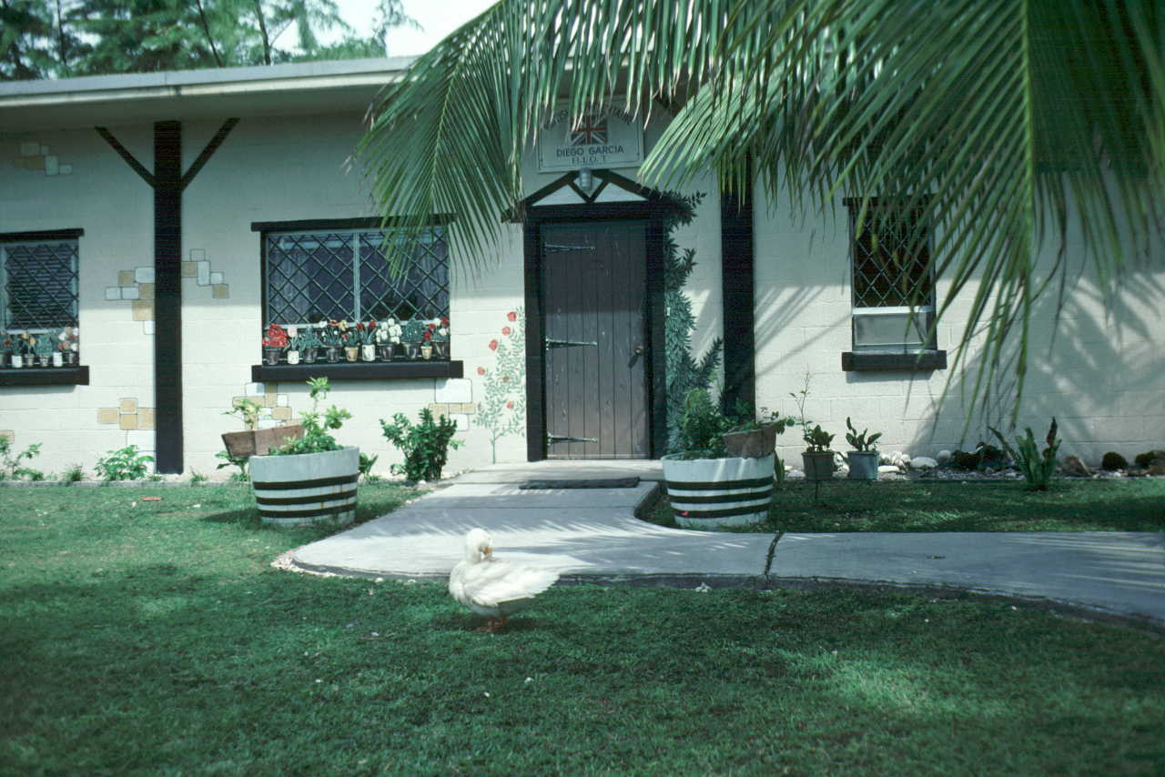 Check out the paintwork in the full sized version. A bit of military trompe-l'œil.